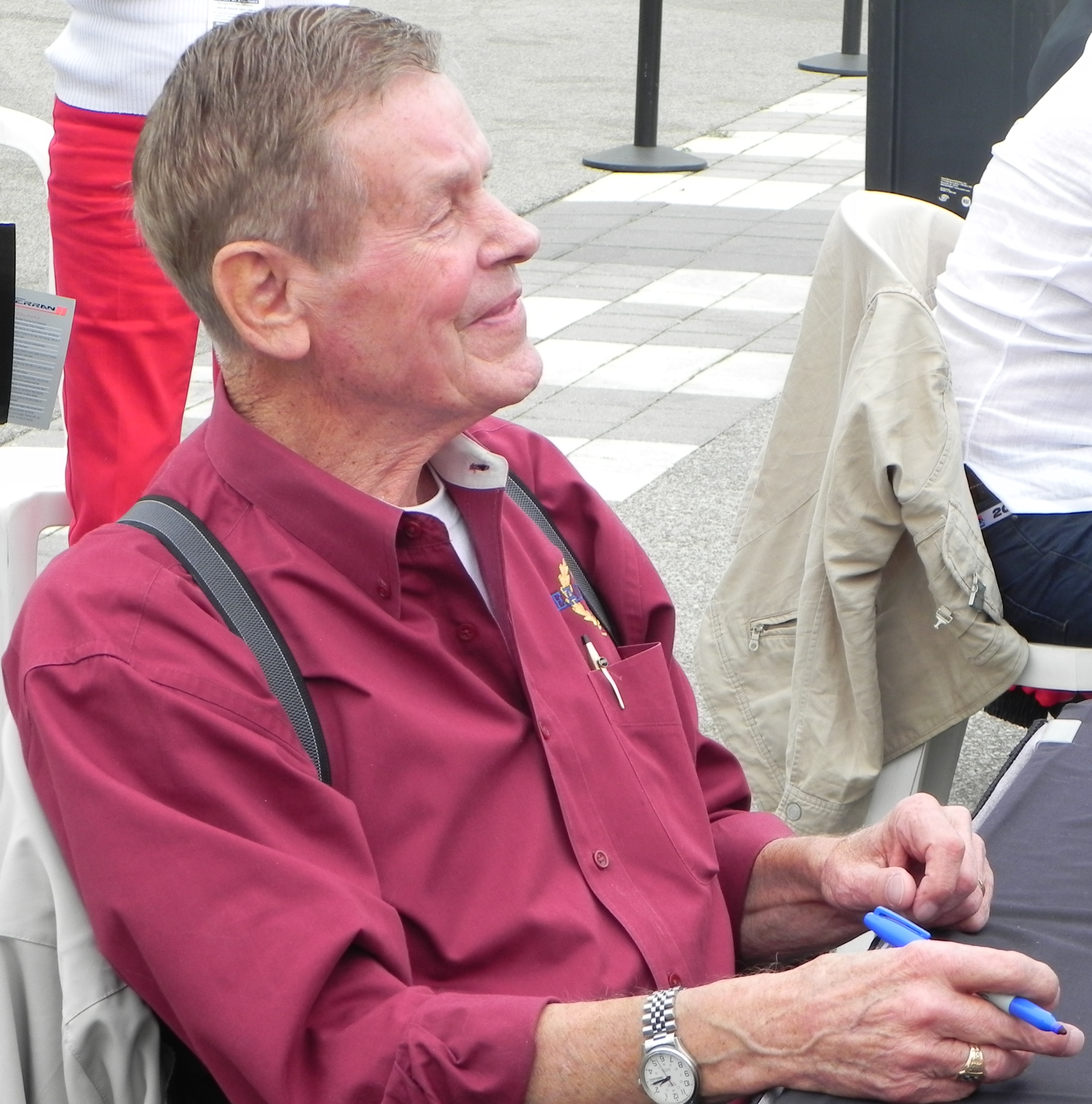 Indy car driver Bobby Unser